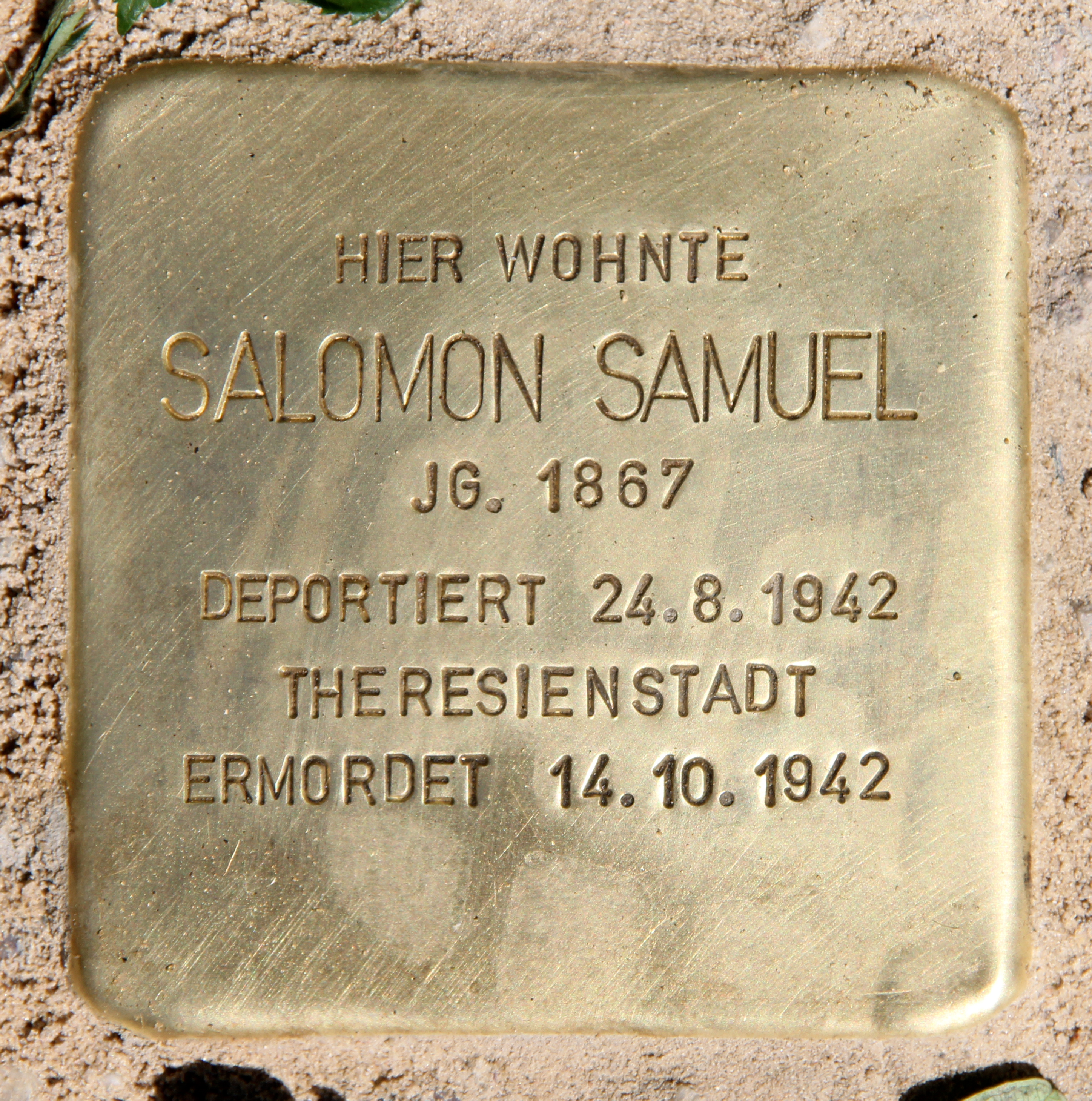 "Stolperstein" (stumbling block), Salomon Samuel, Margaretenstraße 2, Berlin-Grunewald, Germany